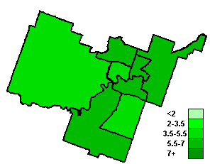 Map made by uploader (User:Earl Andrew); see [1] (question about source) and [2] (response).